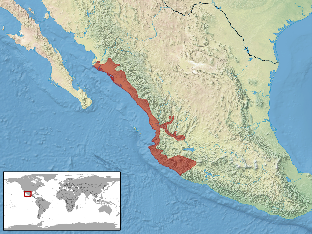 geographic distribution of Crotalus basiliscus (Native: Mexico)